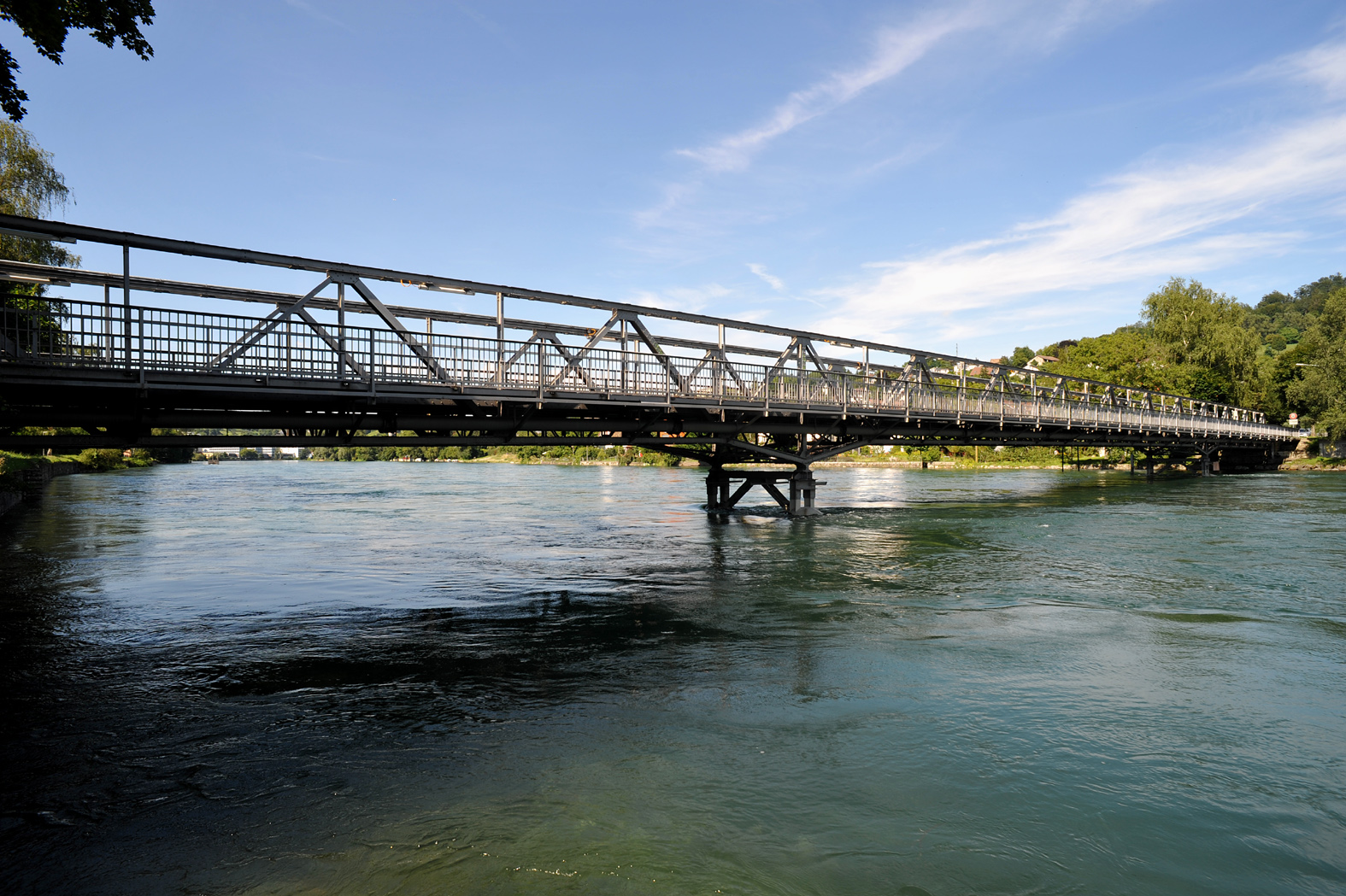 Road bridge between Neuhausen am Rheinfall and Flurlingen; Schaffhausen and Zurich, Switzerland.